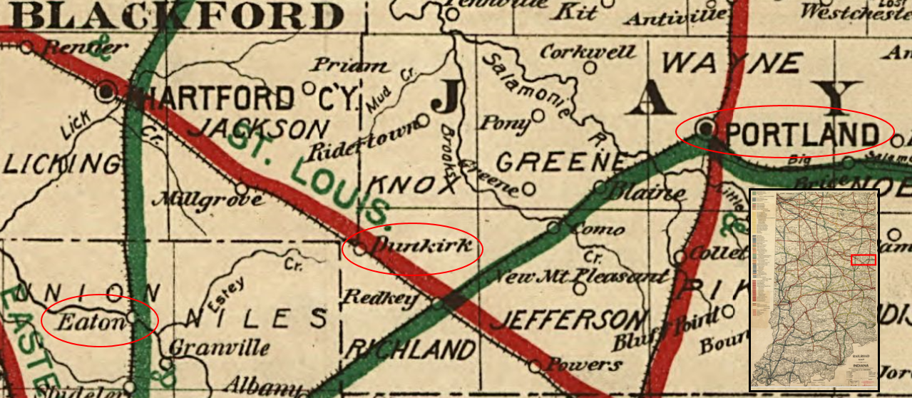 Portland-Dunkirk-Eaton portion of a railroad map of Indiana for 1896, modified by TwoScarsUp